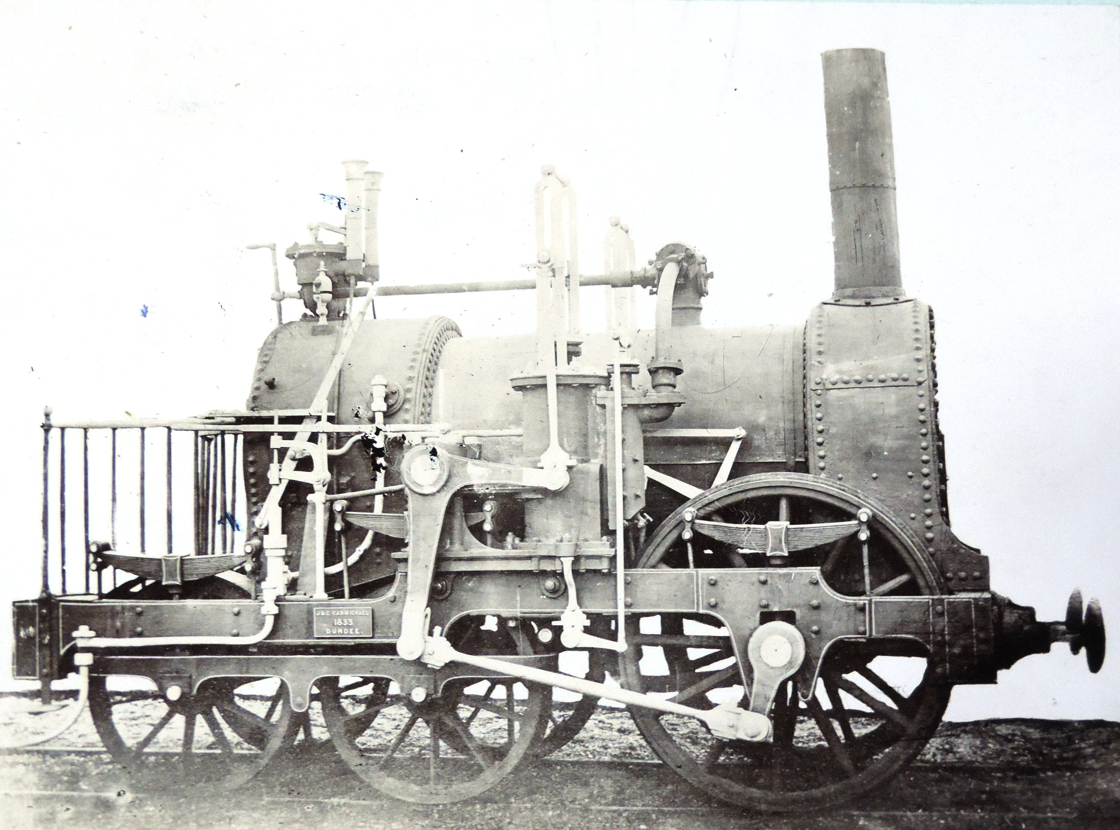 Models of luxury freight rail vehicles and steam locomotives.